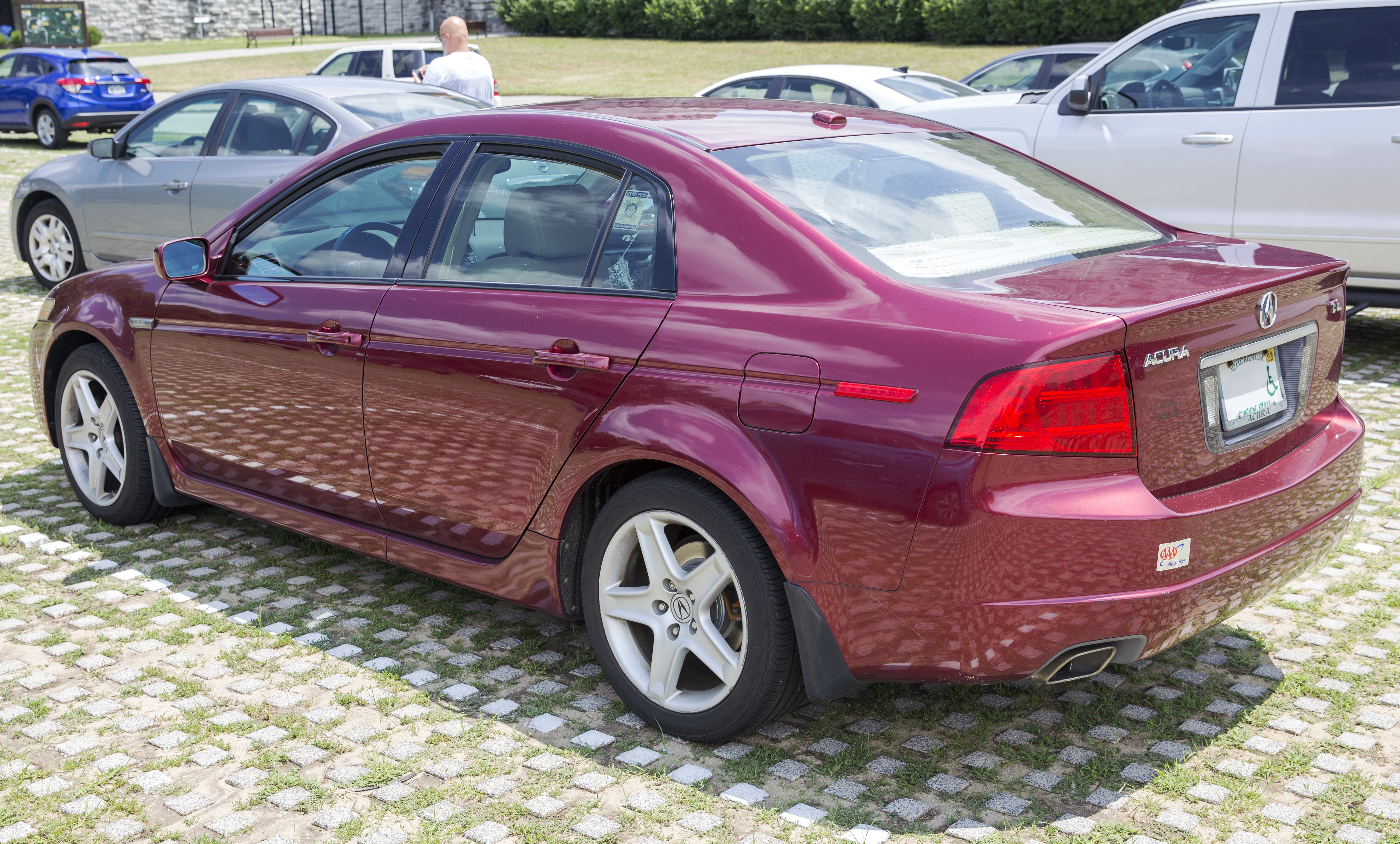 2006 Acura TL. 5-speed automatic, 3.2-litre 258hp J32A3 engine, built in Marysville, Ohio.